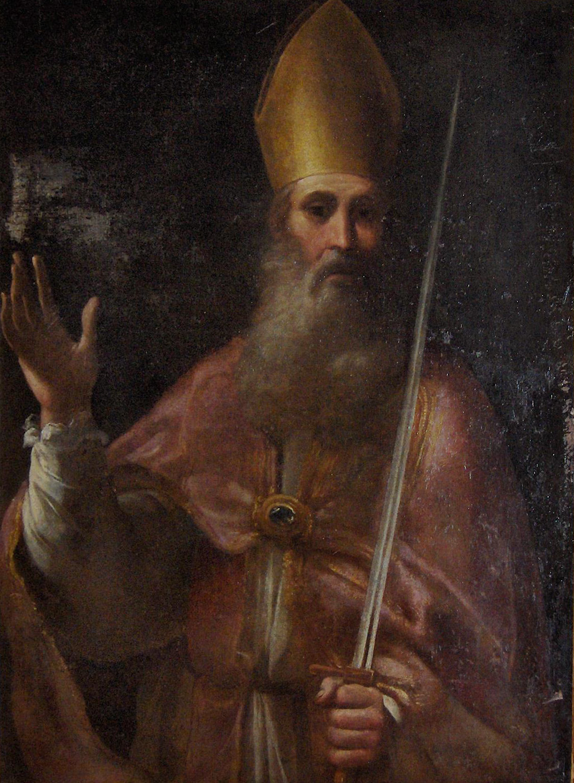 "Saint Romulus of Genoa" (patron saint of Sanremo), painting (1923) by anonymous, 18th century; basilica and cathedral San Siro, Sanremo, Italy